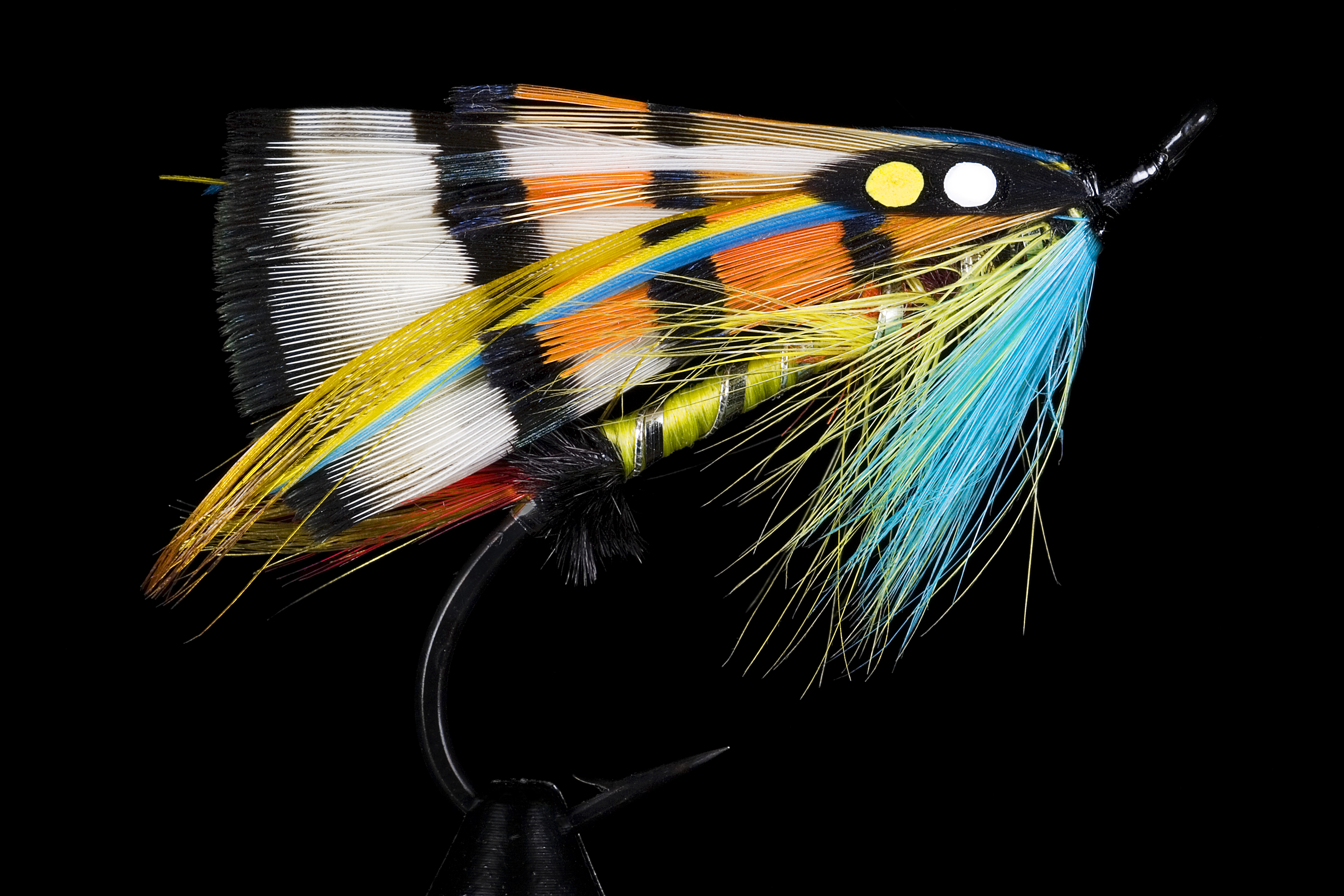 Durham Ranger salmon fly. The hook length in this example is 4.5cm.